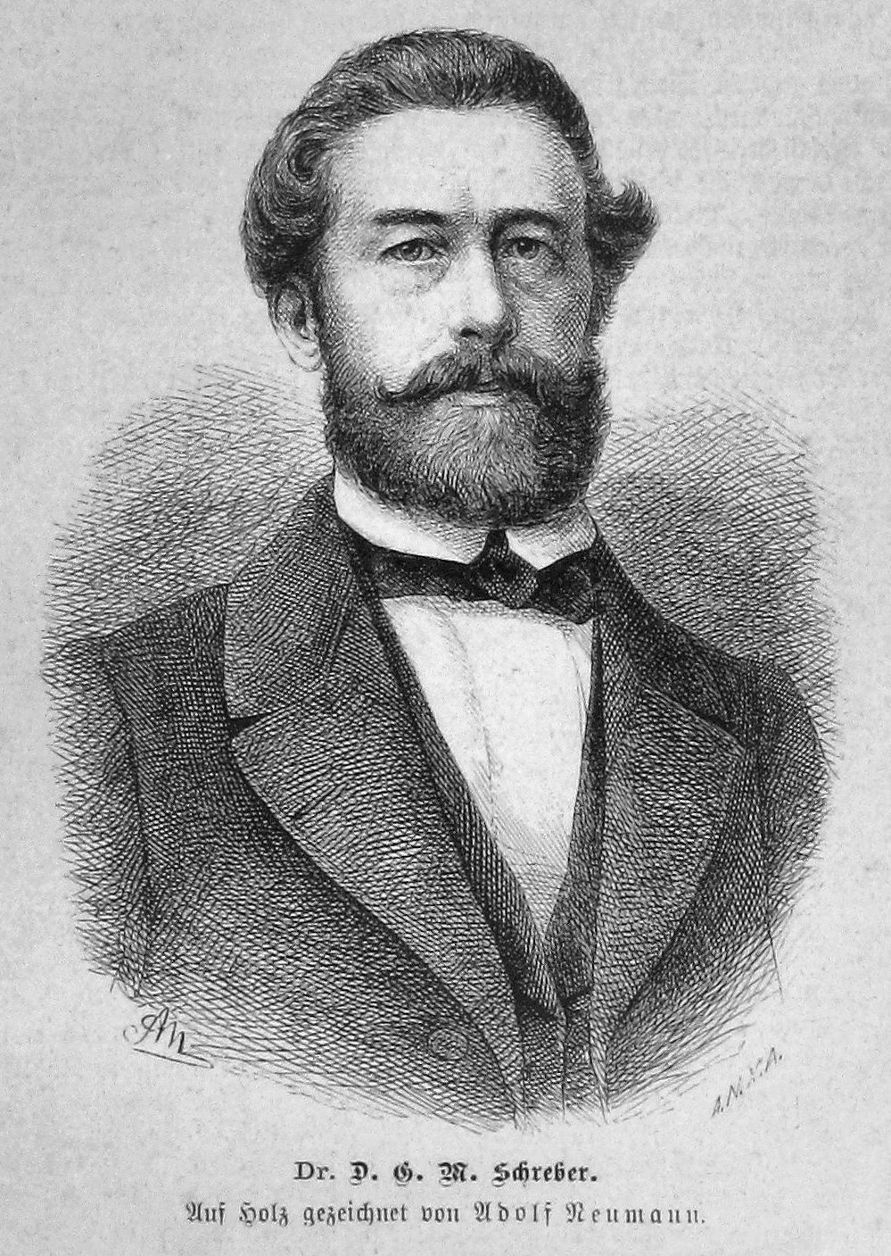 caption: "Dr. D. G. M. Schreber. Auf Holz gezeichnet von Adolf Neumann."